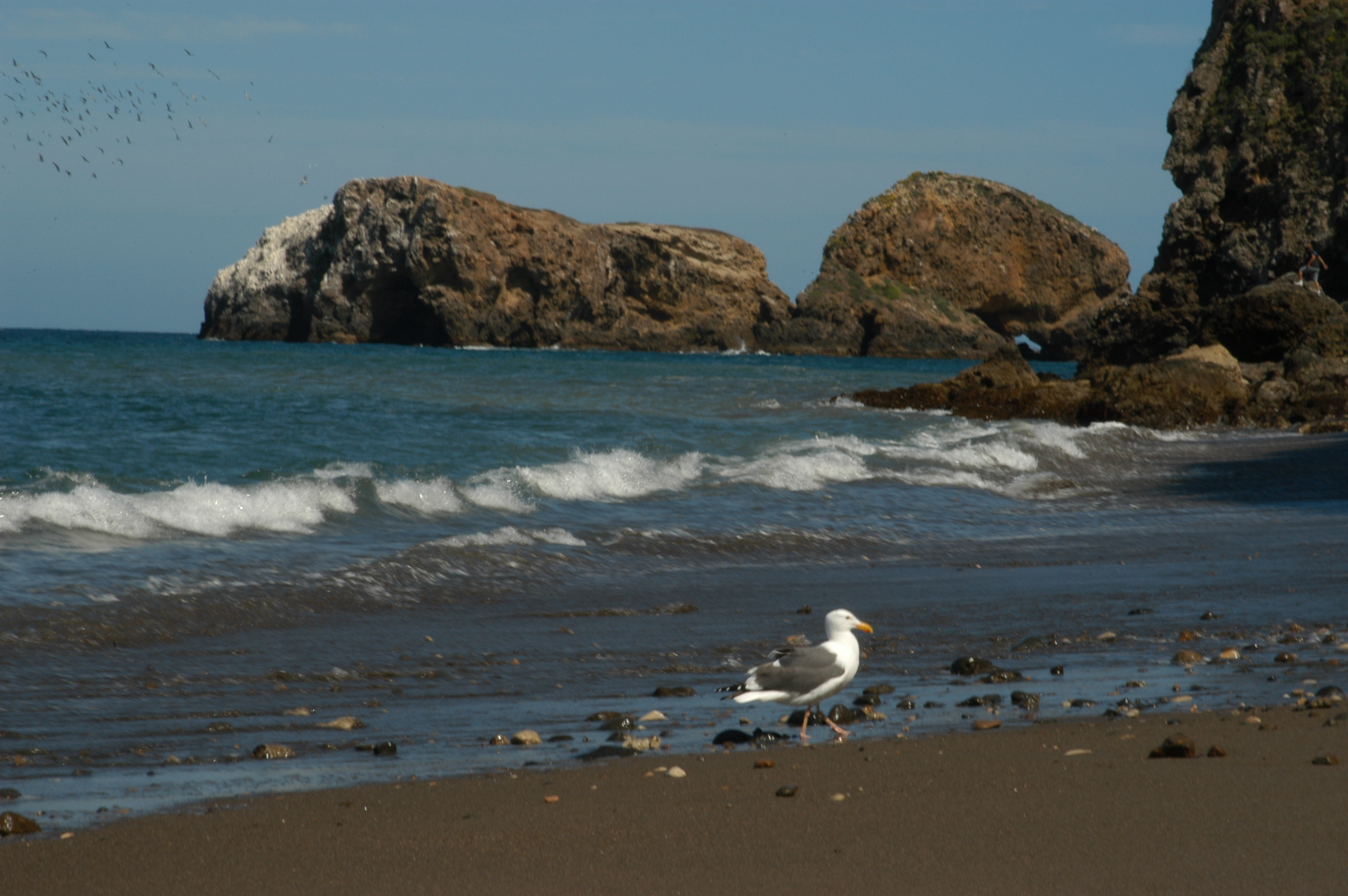 Beach of Santa Cruz Island — Channel Islands National Park, Santa Barbara County, California.